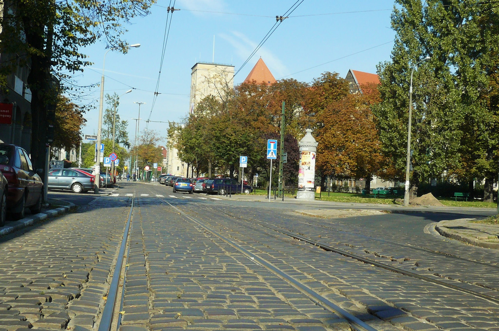 Towarowa Street, Poznan.